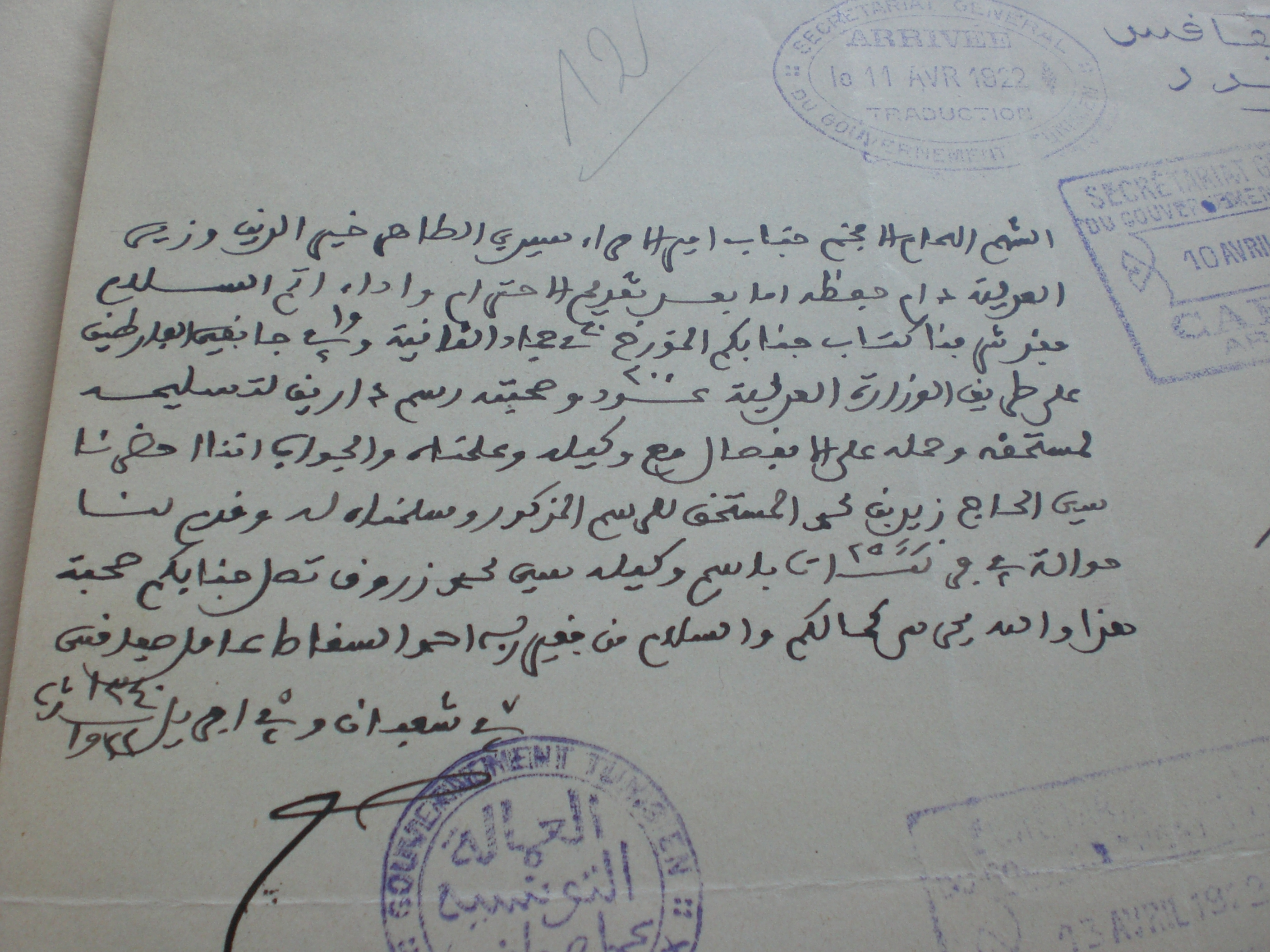 Archival Document in Maghrebi Script